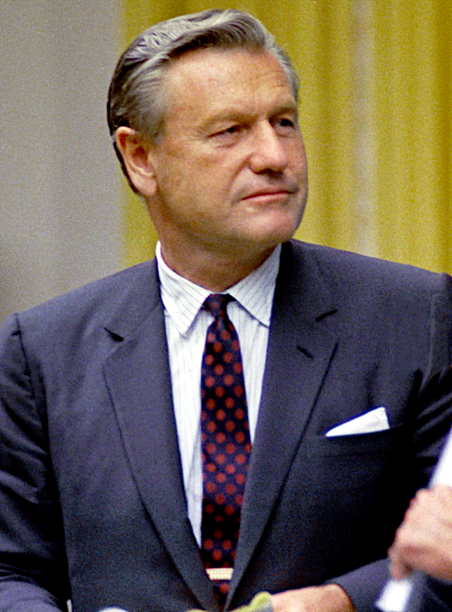 Nelson Rockefeller, former Vice President of the United States and Governor of New York